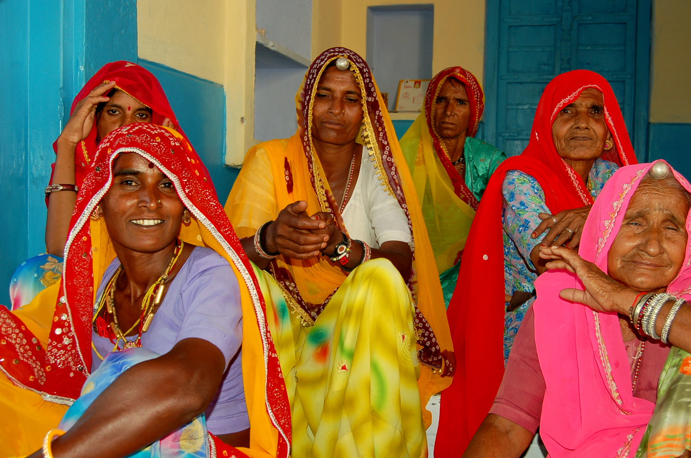 Ladies of Rajasthan, India